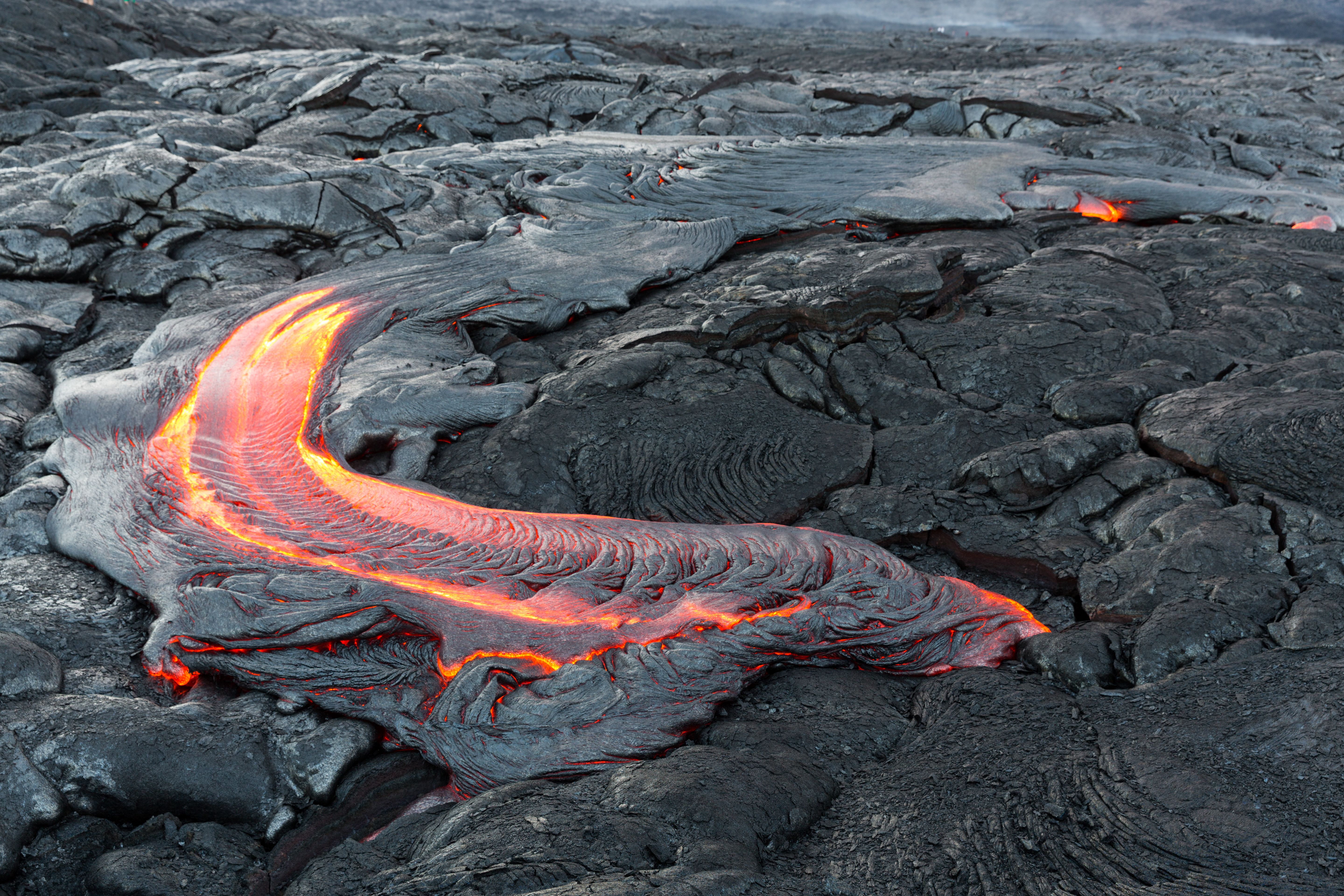 Active Pāhoehoe lava flow from Kīlauea near Kalapana south of Hawaiʻi Volcanoes National Park